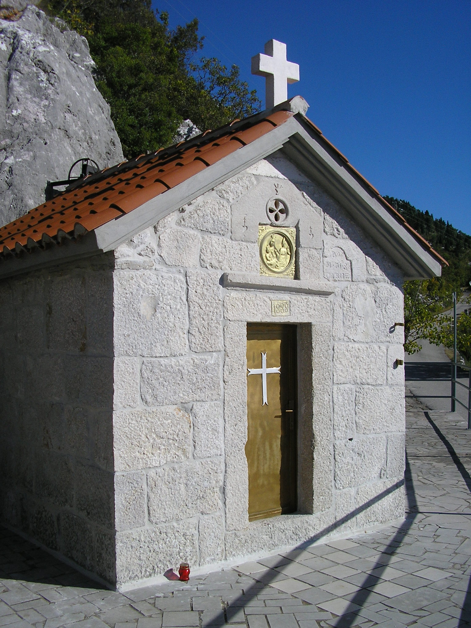 Chapel of Our Lady of Mount Carmel in Badžula